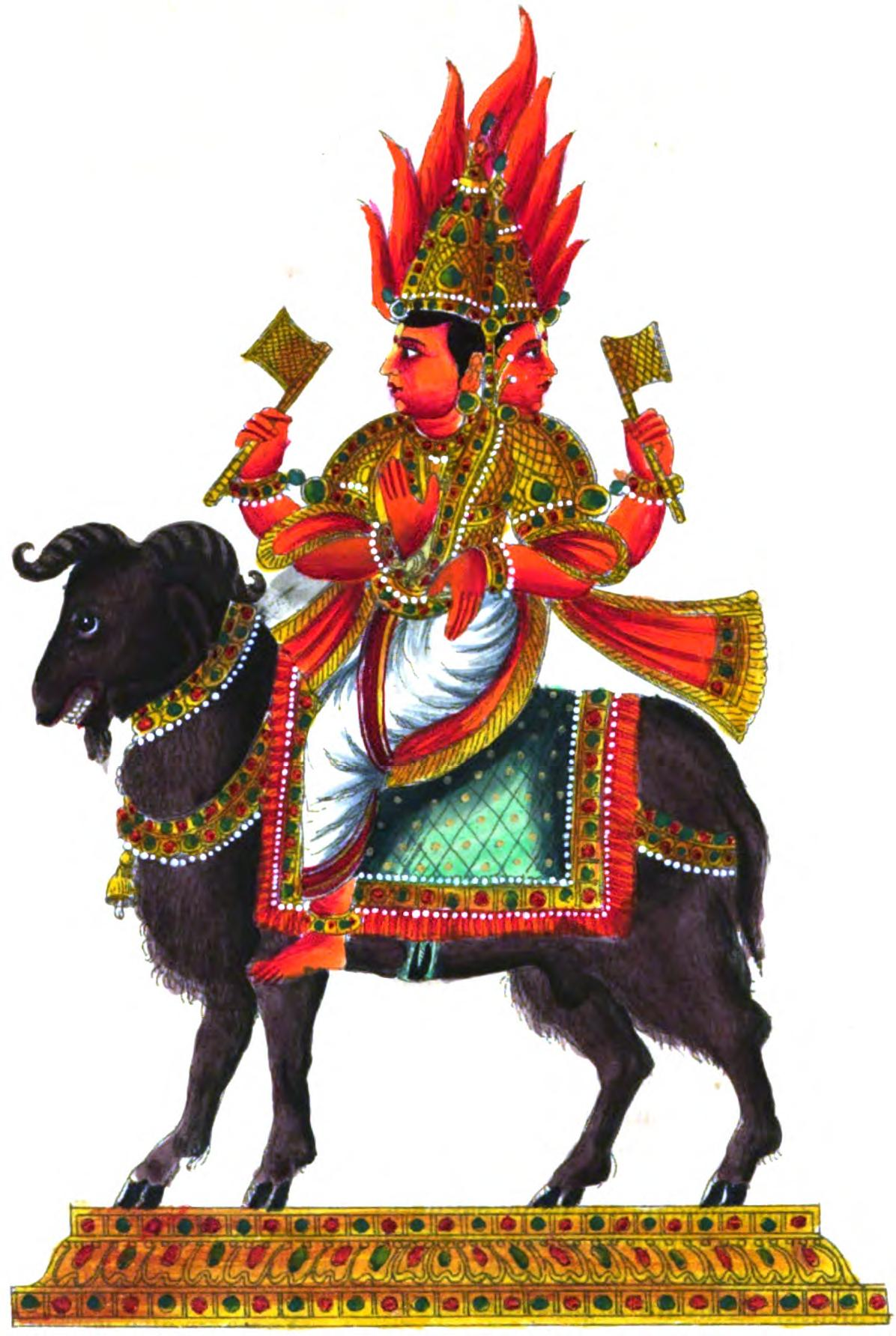 agni